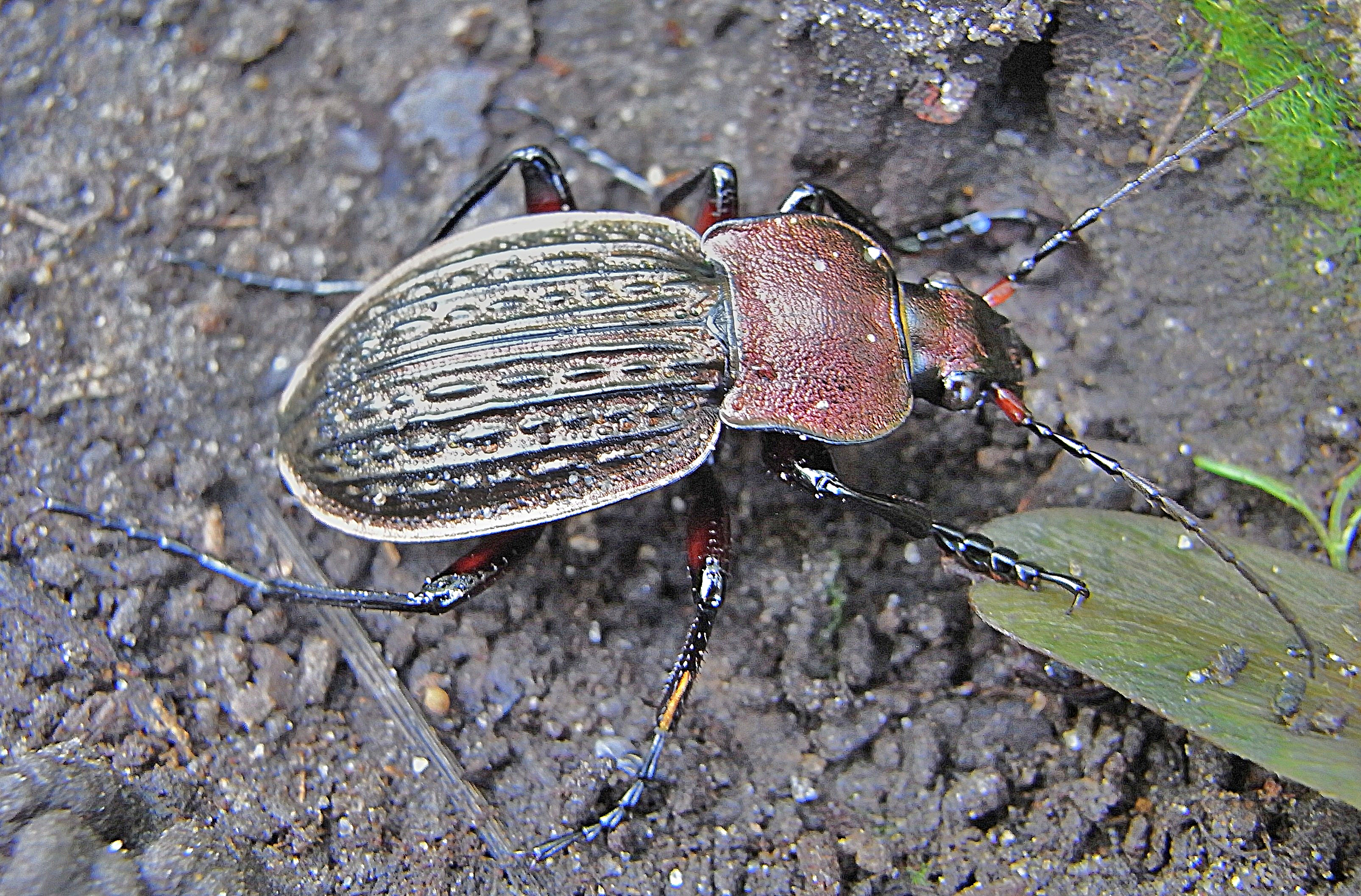 Carabus cancellatus from Hungary, West of Debrecen at 2010-06-06 deutsch: laut Entomoforum Autocarabus cancellatus tibiscinus f.i. nattereri